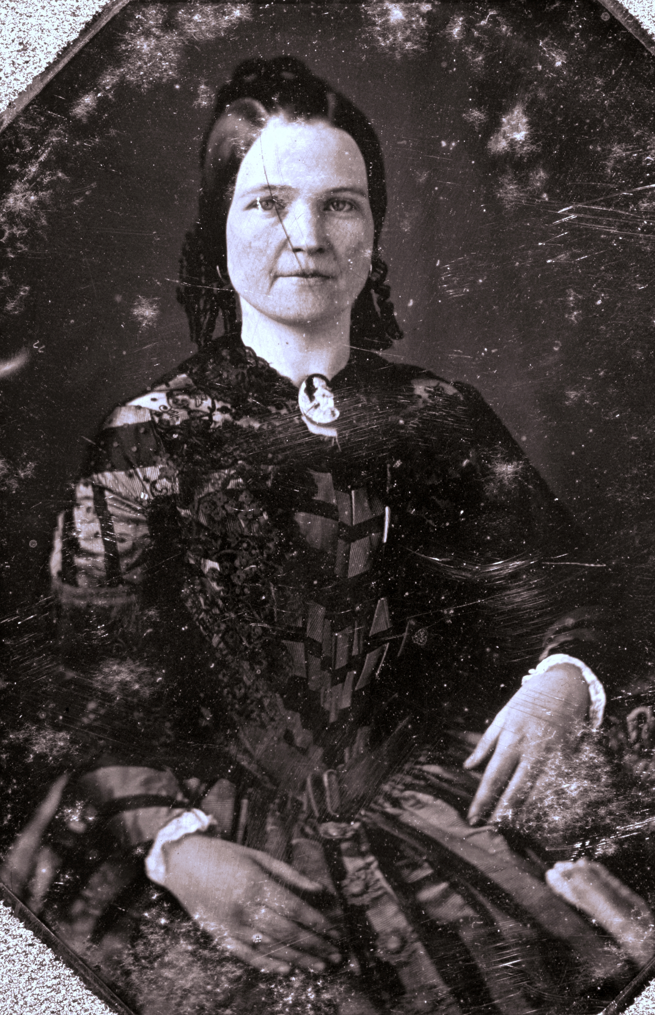 Mary Todd Lincoln, wife of Abraham Lincoln. Three-quarter length portrait, seated, facing front